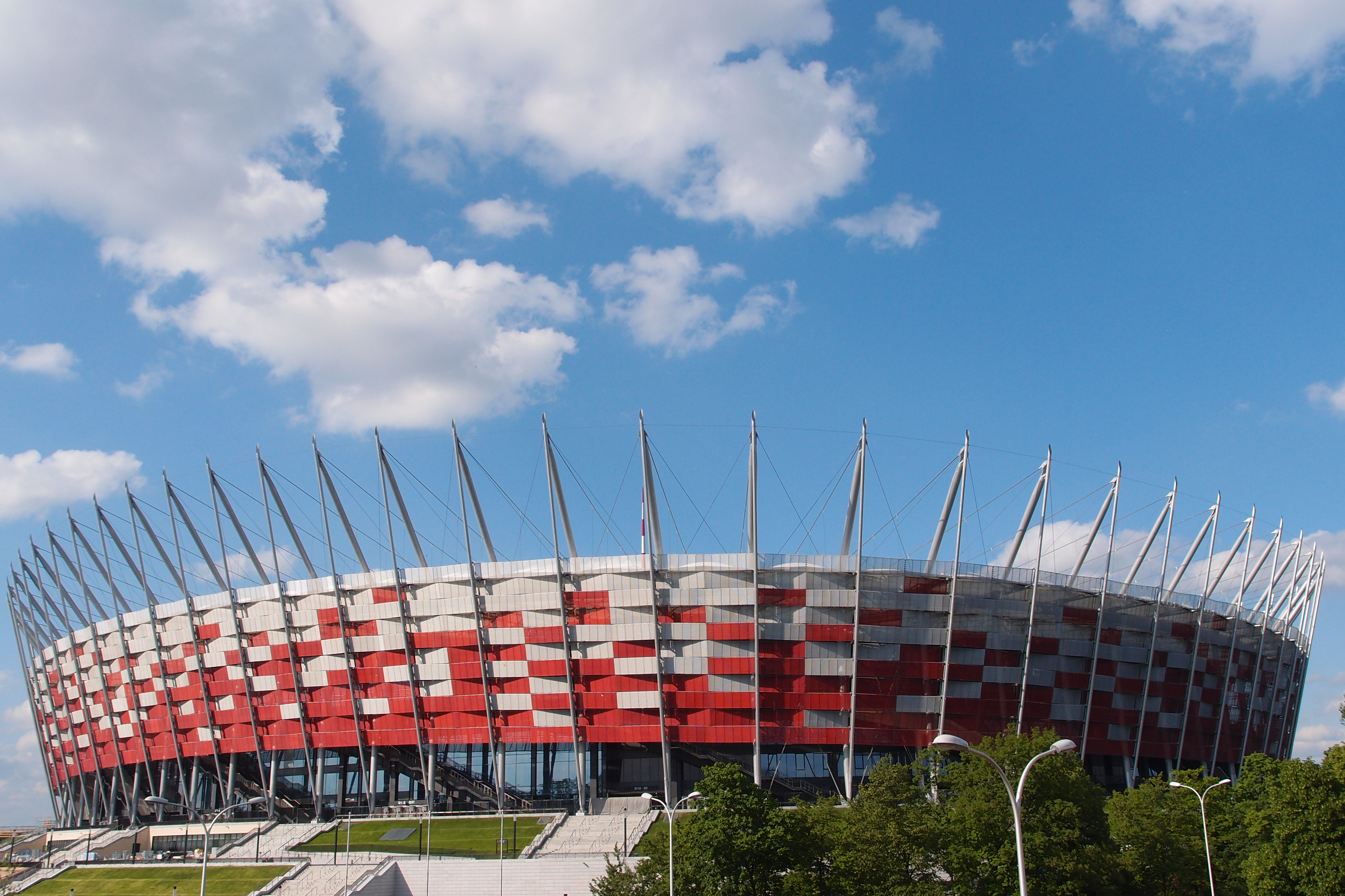 In Praga, across the river from the Old Town.